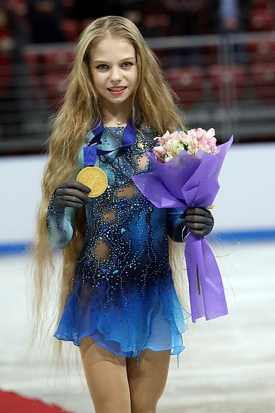 Photos – Junior World Championships 2018 – Ladies (Medalists)